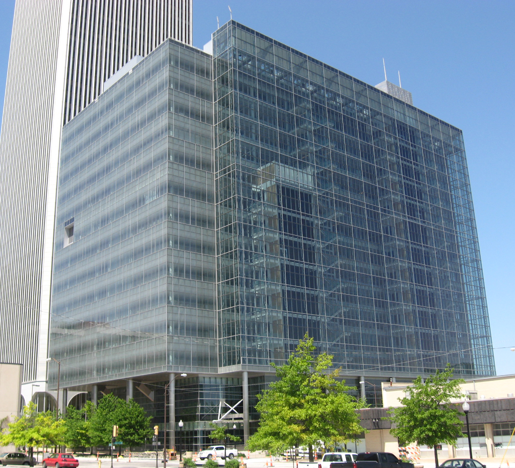 Tulsa City Hall also known as the One Technology Center.